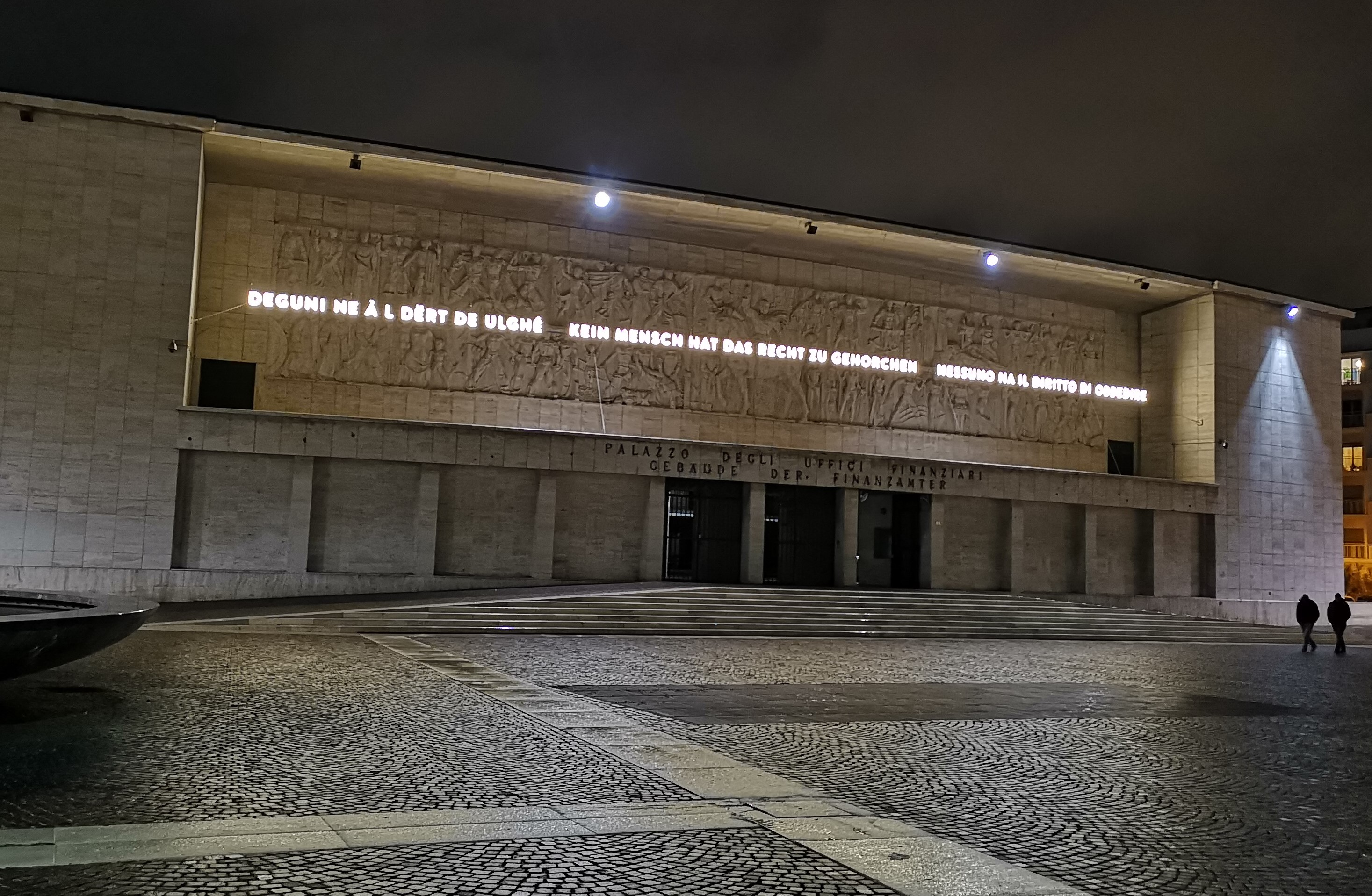 Facade of the former headquarter of the Fascist party in Bozen-Bolzano now displaying a quote by Hannah Arendt (2018)